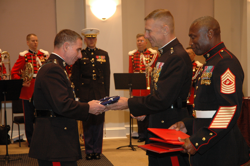 LtGen Jan C. Huly, USMC; 07 November 2006 Retirement Ceremony in honor of LtGen Huly — LtGen Huly receives the colors from CMC Gen Michael Hagee while SgtMaj John L. Estrada (SMMC) looks on.